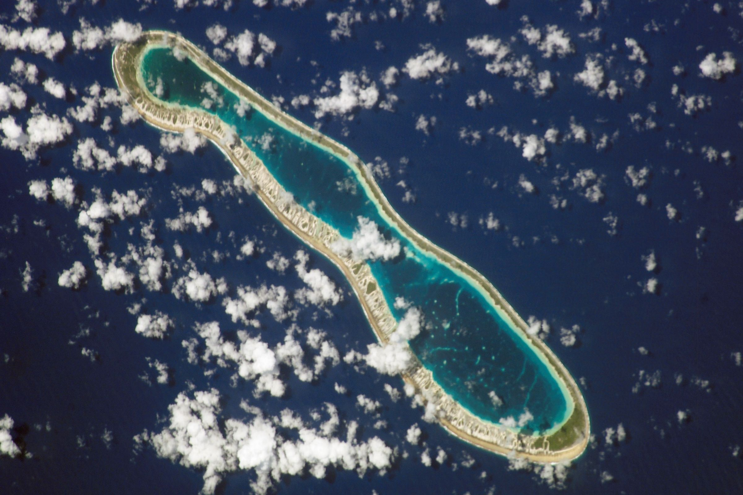 NASA astronaut image of Reao Atoll (Tuamotu Archipelago, French Polynesia) in the Pacific Ocean